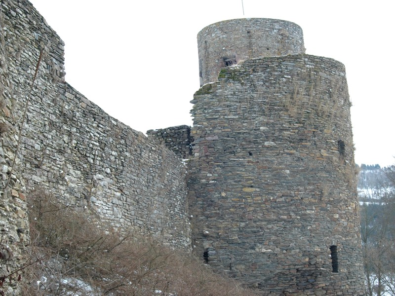 = West shelter wall of Castle Reuland in Belgium